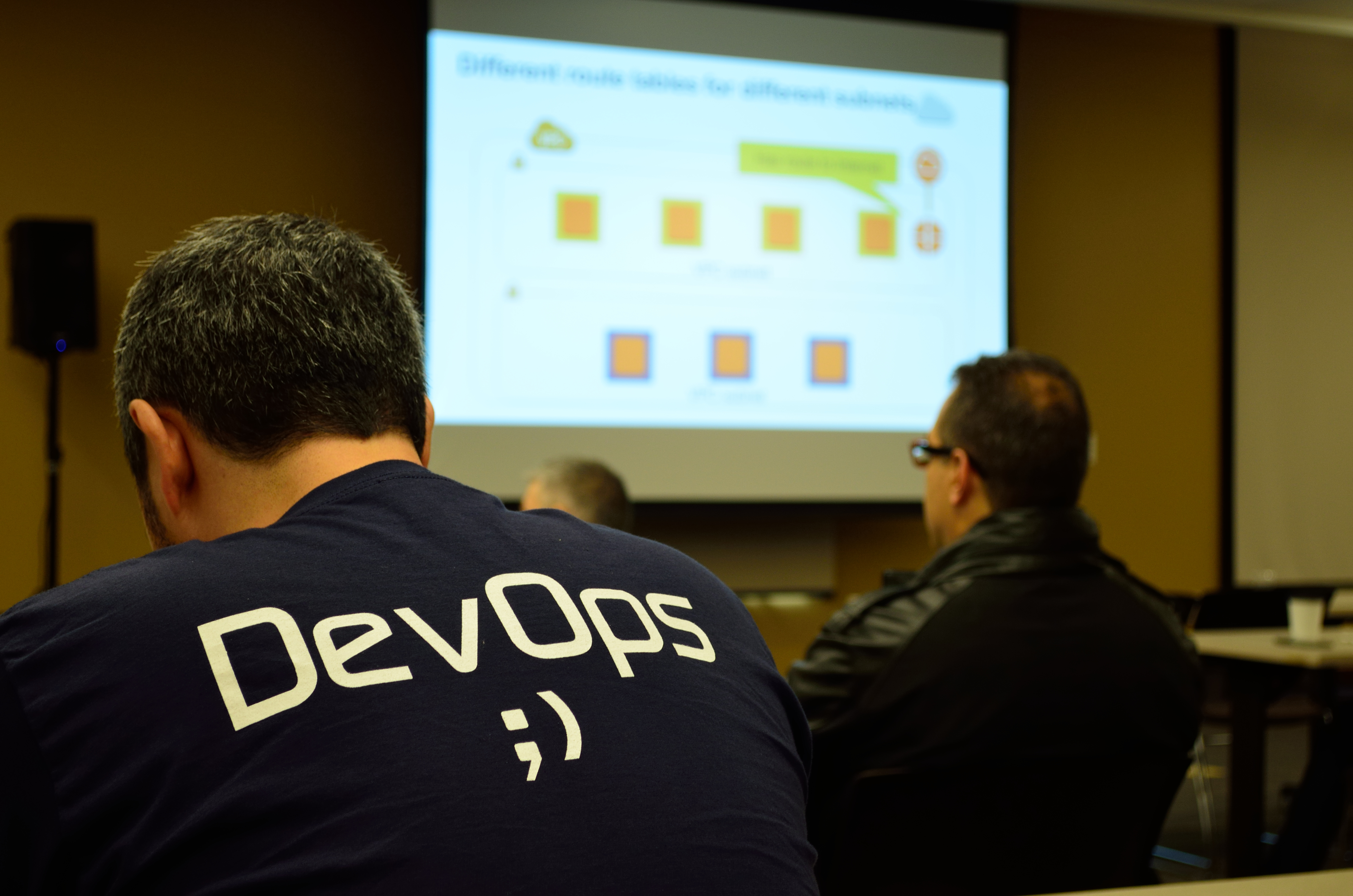 Guy wearing DevOps TShirt at AWS Enterprise Summit 2016.